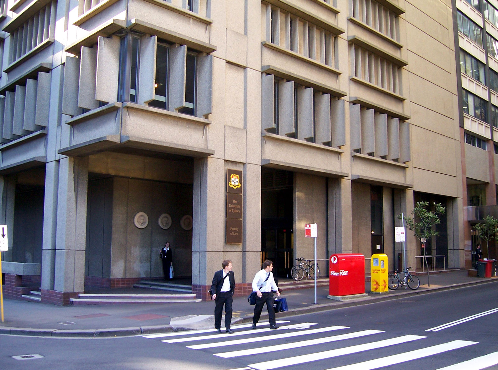 Sydney Law School, part of the University of Sydney. Taken by Enoch Lau on 17 November 2005. As a courtesy, please let me know if you alter this image or this image description page. Original filename was 100_0620.JPG.